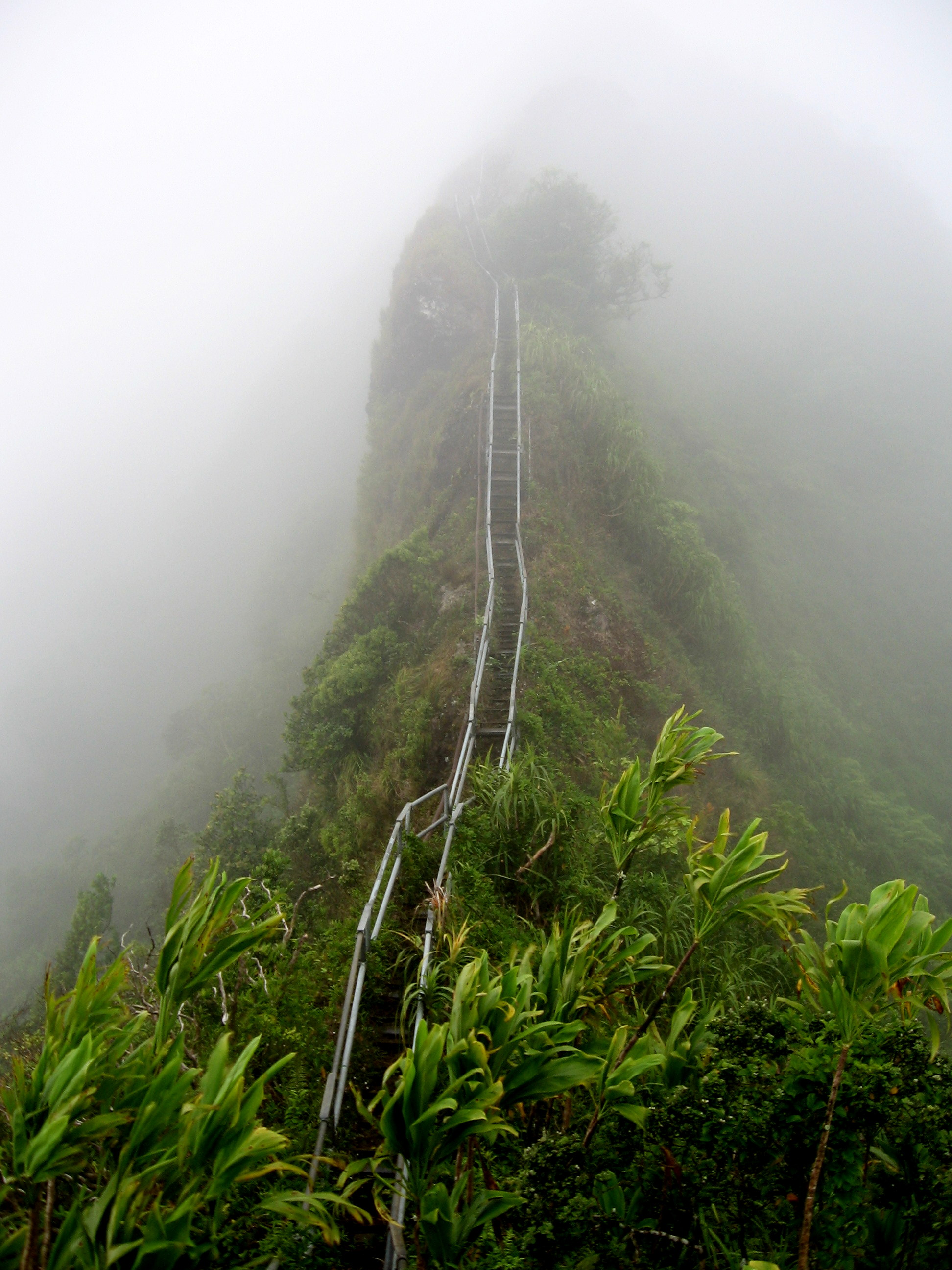 i took this picture when i climbed Haiku Ladder (aka. Stairway to Heaven) in July of 2007.